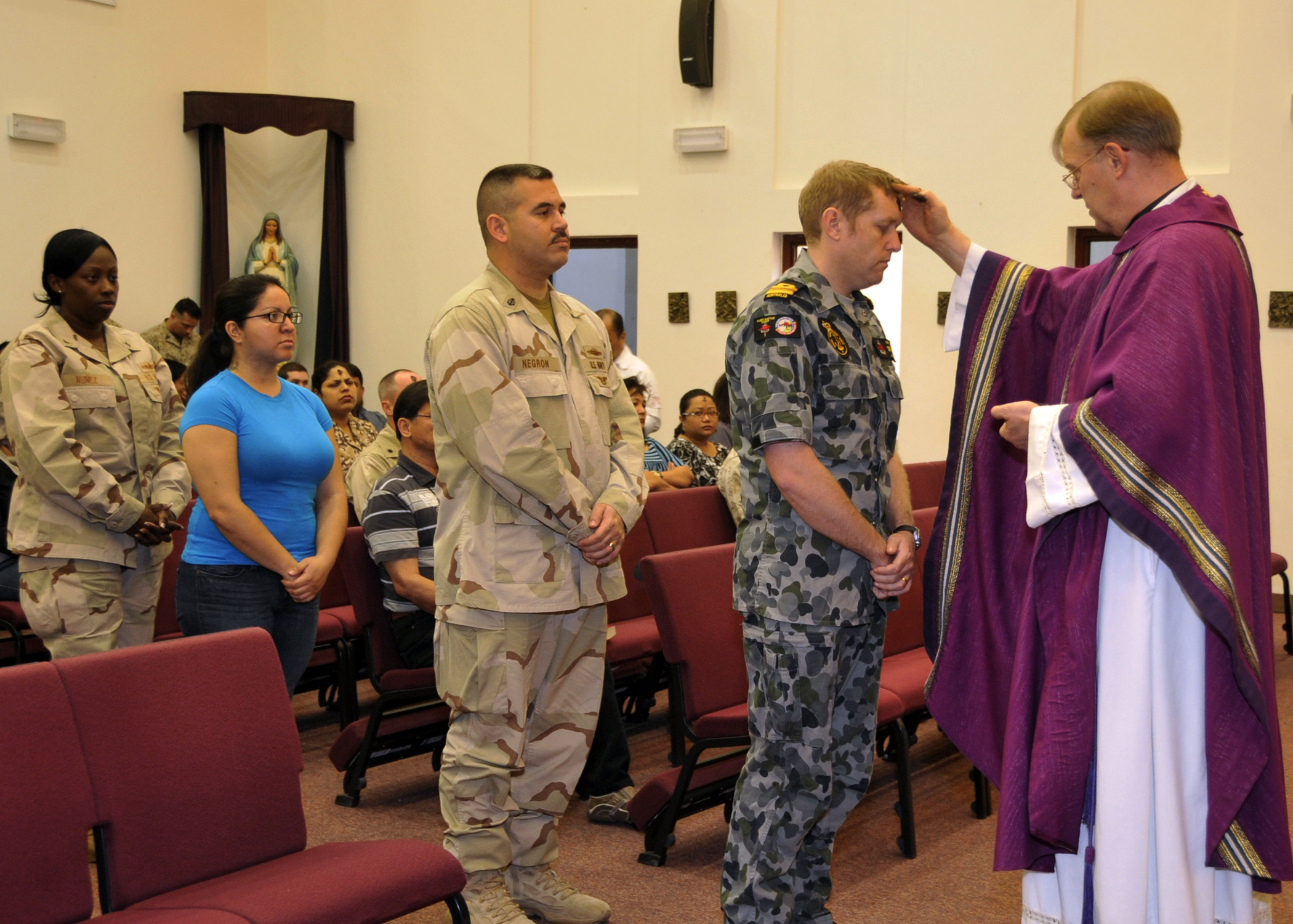 MANAMA, Bahrain (Feb. 17, 2010) Lt. Cmdr. Ronald Stake, a Navy chaplain, holds Ash Wednesday Mass at Naval Support Activity Bahrain to mark the beginning of Lent. (U.S. Navy photo by Mass Communication Specialist 2nd Class Johansen Laurel/Released)